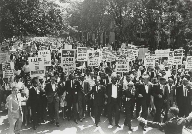 Title: March on Washington for Jobs and Freedom, Martin Luther King, Jr. and Joachim Prinz pictured, 1963 Photographer: unknown Date: 1963 Medium: Black and white photograph Repository: American Jewish Historical Society Parent Collection: American Jewish Congress records, undated, 1916-2006 (I-77) Call Number: I-77, Box 743, Folder 26, Photograph 004 Persistent URL: Rights Information: No known copyright restrictions; may be subject to third party rights. For more copyright information, click here. The Guide to the Records of American Jewish Congress is now available online, including hyperlinks to many more photographs. See more information about this image and others at CJH Digital Collections. Digital images created by the Gruss Lipper Digital Laboratory at the Center for Jewish History.